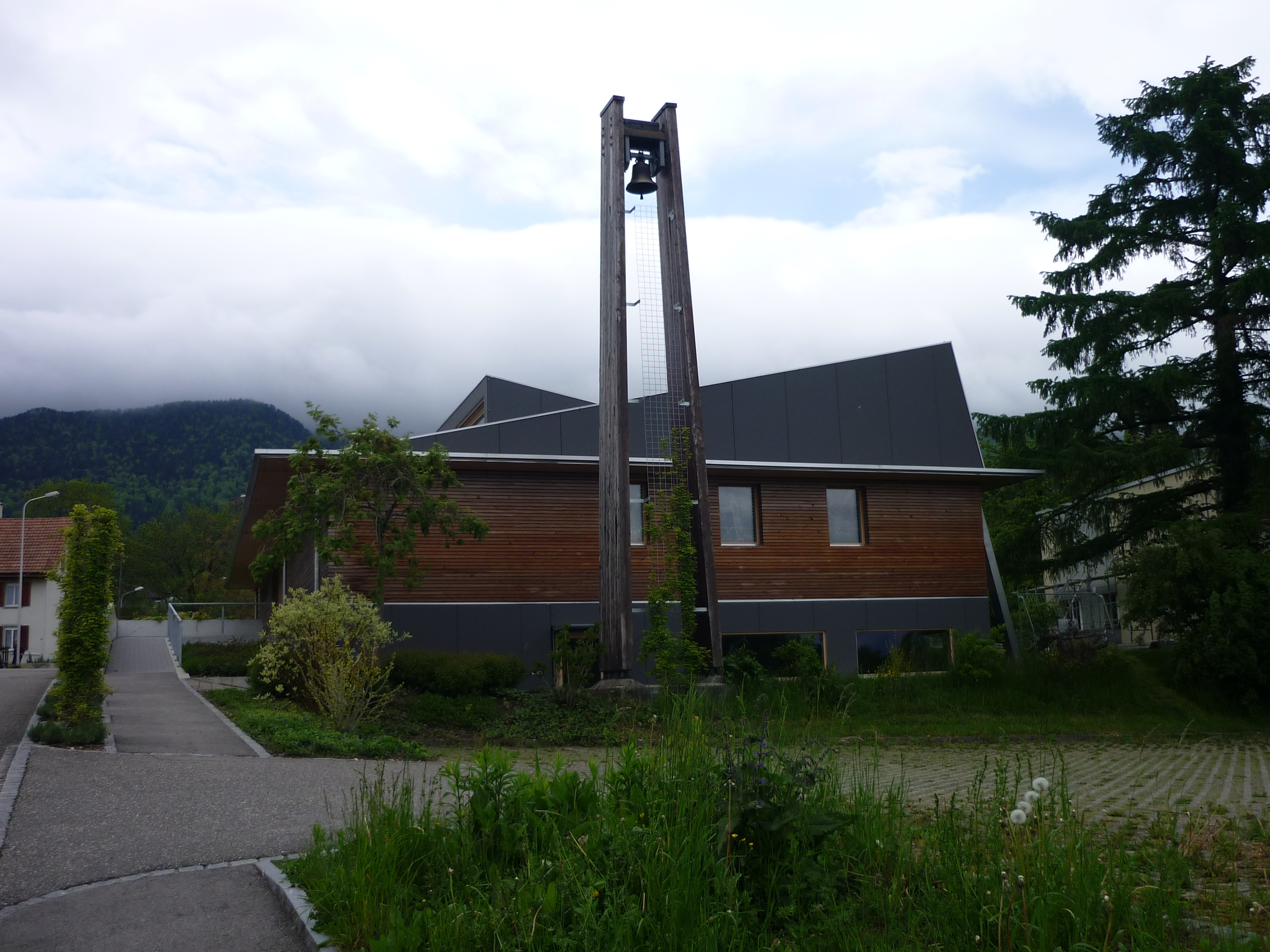 Reformed church in Selzach, Canton of Solothurn, Switzerland.